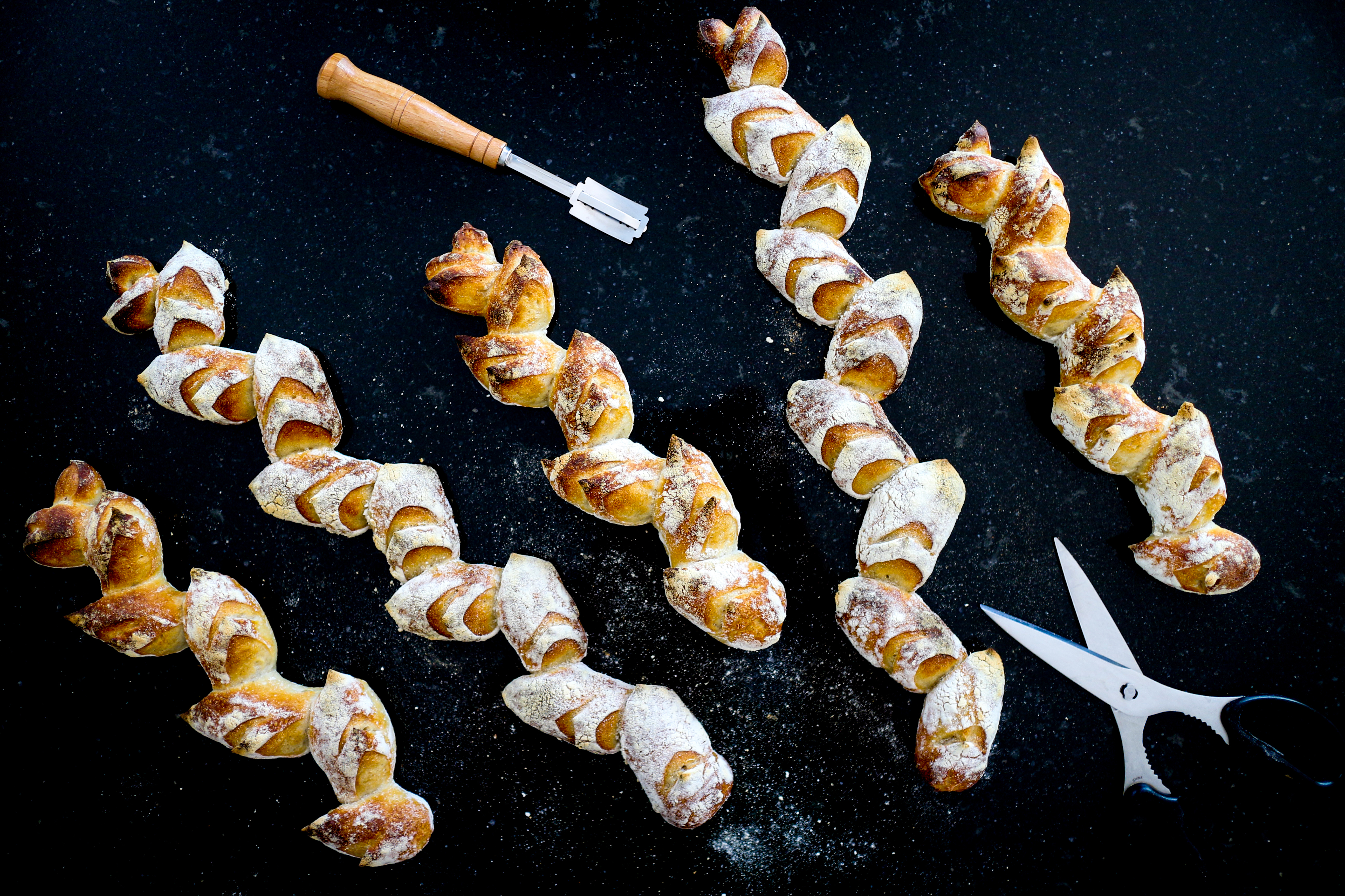 Homemade Raisin yeast wheat stalk baguettes (250g) and homemade wheat stalk demi-baguettes (125g)